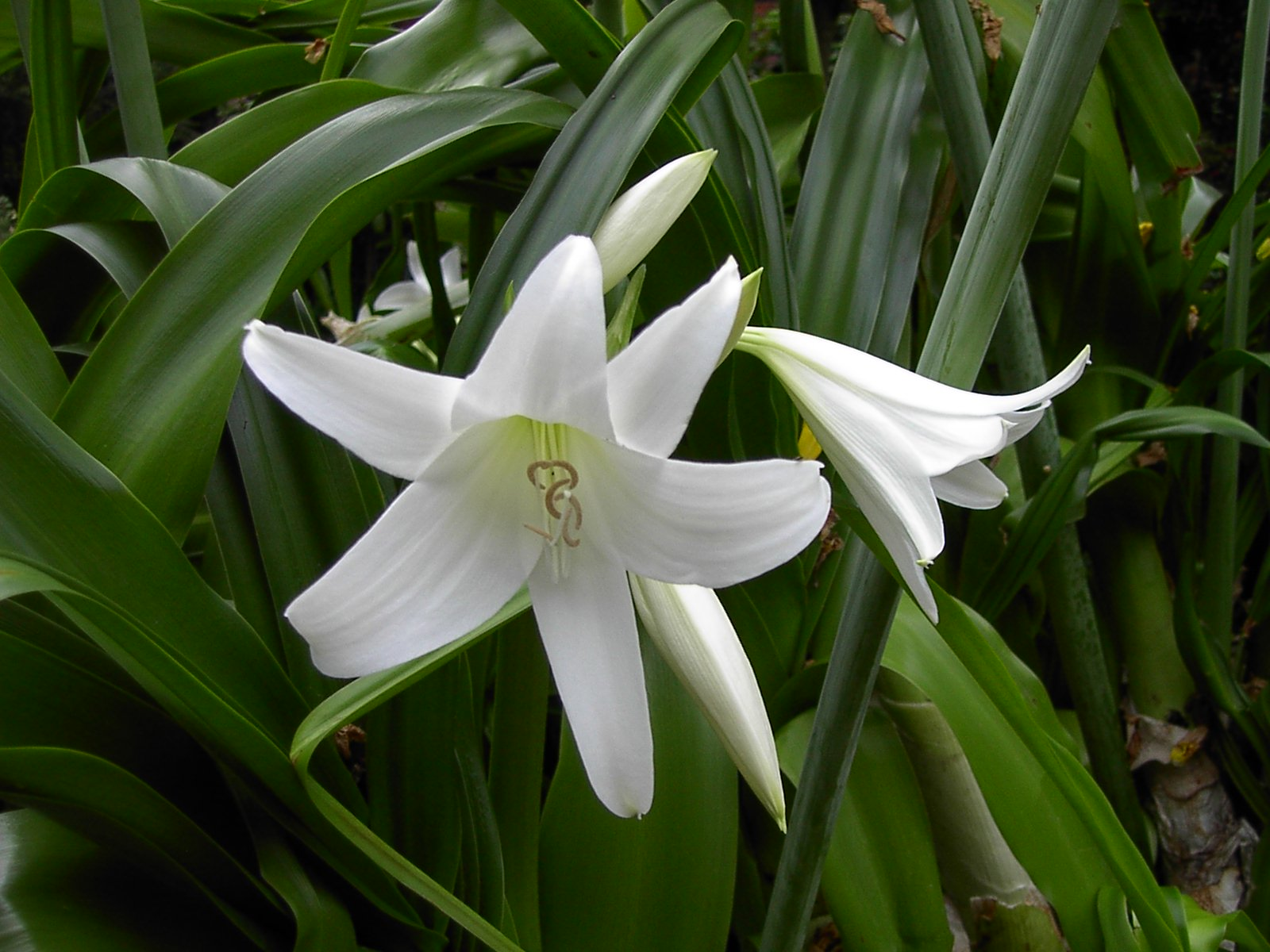 Crinum x powellii. Berggarten, Hannover, Germany Source=own